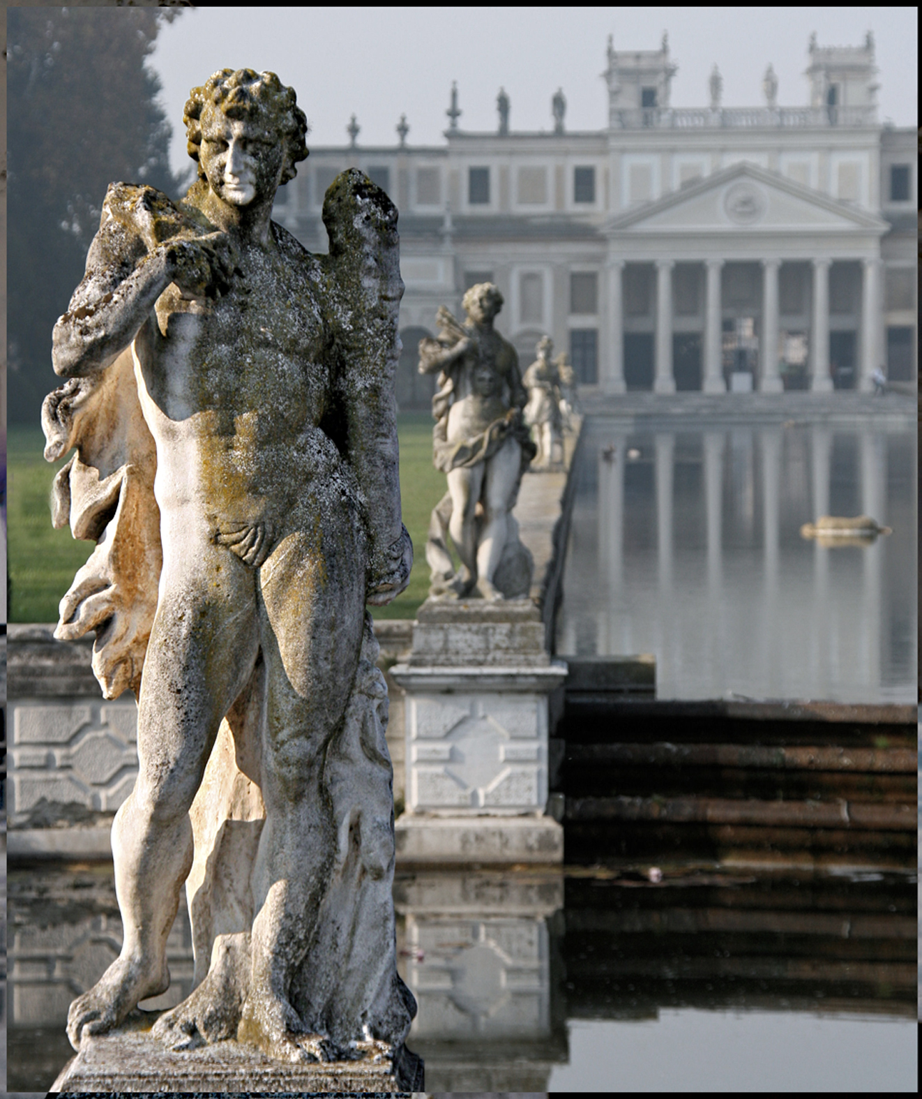 villa Pisani - La Nazionale - Strà - Veneto - Italie - EU